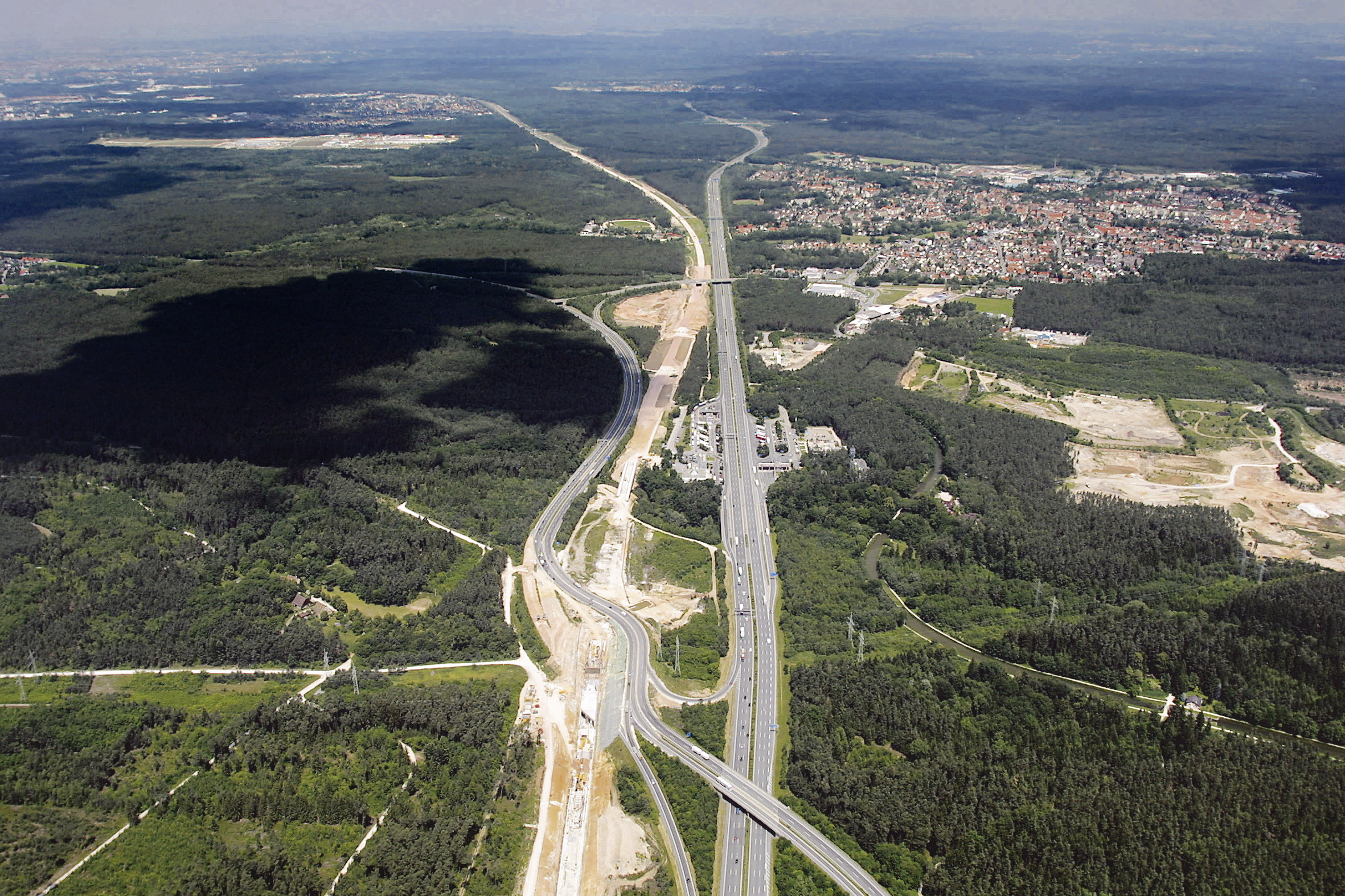 The Nuremberg-Ingolstadt high-speed railway line under construction, in 2001. The future track is being built between the Autobahns 73 (left) and 9 (right). Headed for Nuremberg (top left), the track separates from the two highways, passing by the village of Feucht (top right). On the bottom, the Nuremberg-Feucht motorway interchange can be seen.